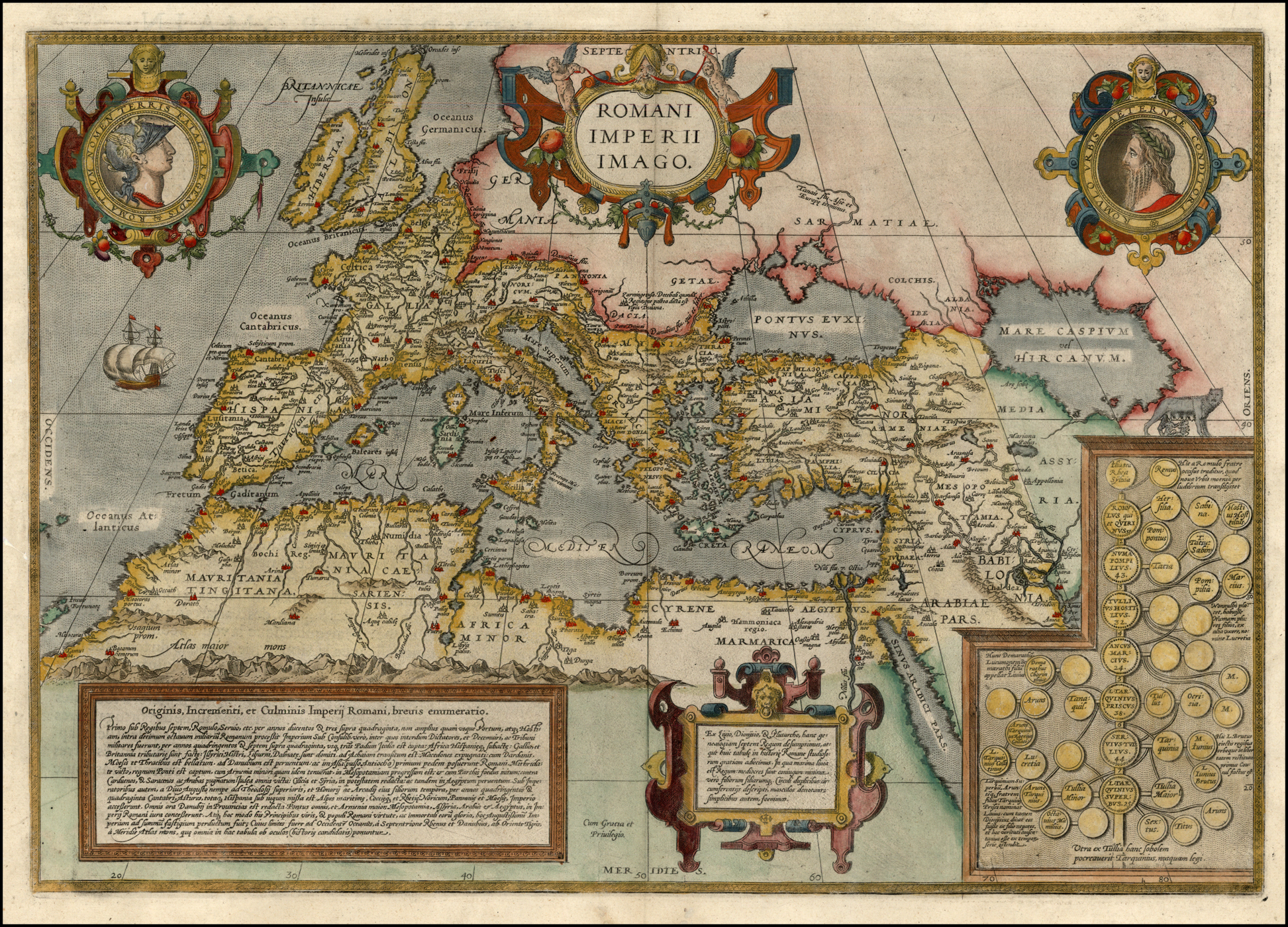 Histroical map representing the Roman Empire, introduced by Ortelius into the Theatrum Orbis Terrarum extra.